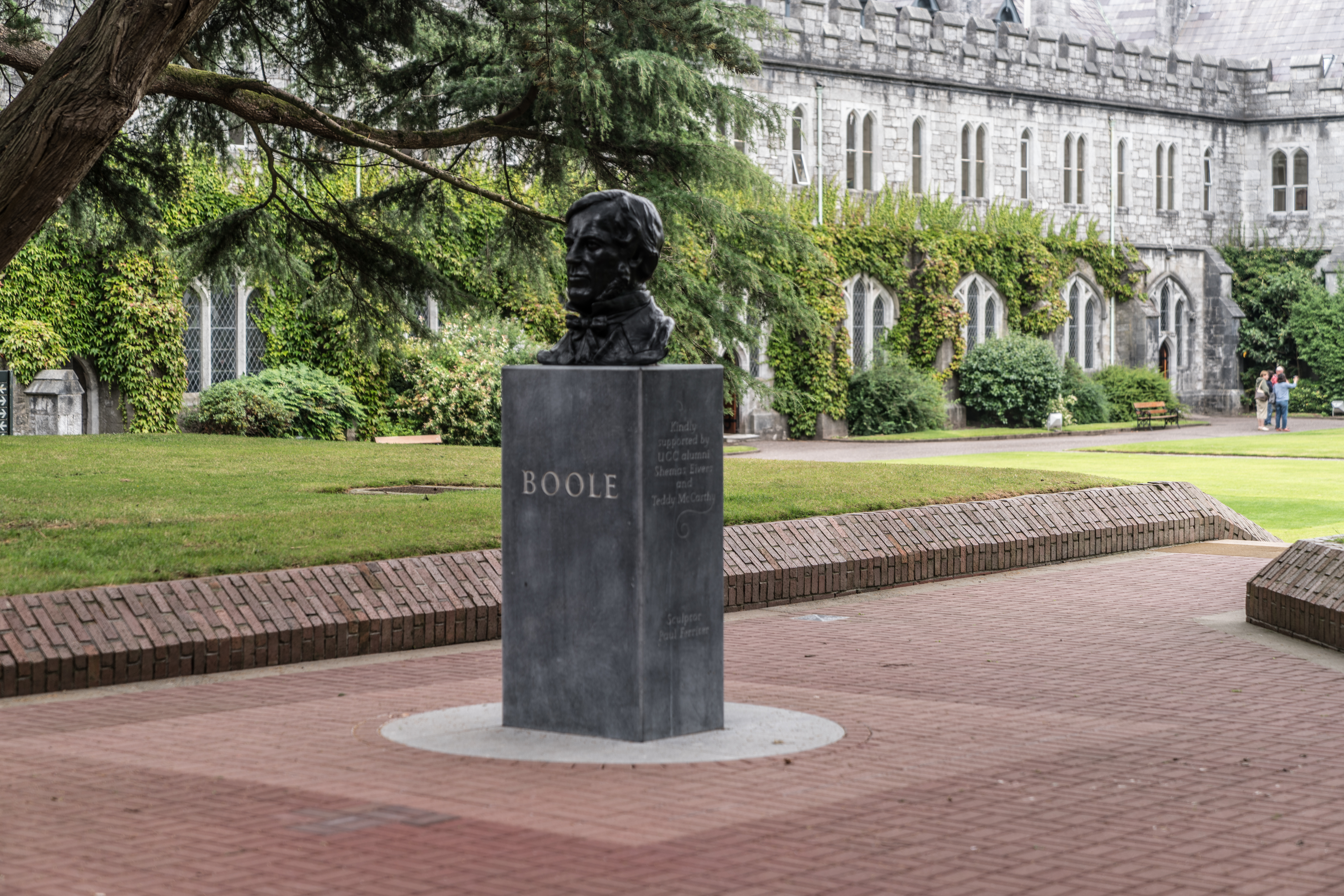 George Boole, first professor of Mathematics at Queens College Cork (later UCC) was born on the 2 Nov 1815 in Lincoln, England the eldest son of John Boole and his wife MaryAnn Joyce. He had 3 siblings Maryann (1818 –1887), Charles (1819 –1888) and William (1821 –1902).In 1855 he married Mary Ann Everest and they had 5 children, all daughters Mary Ellen (b. 1856), Margaret (b. 1858), Alice (b. 1860, Lucy (b. 1862) and Ethel (b.1864). Boole died prematurely in 1864 at his home in Ballintemple, Co. Cork aged only 49. He caught a severe chill from walking in the rain, which later turned into a lung infection, causing his death.